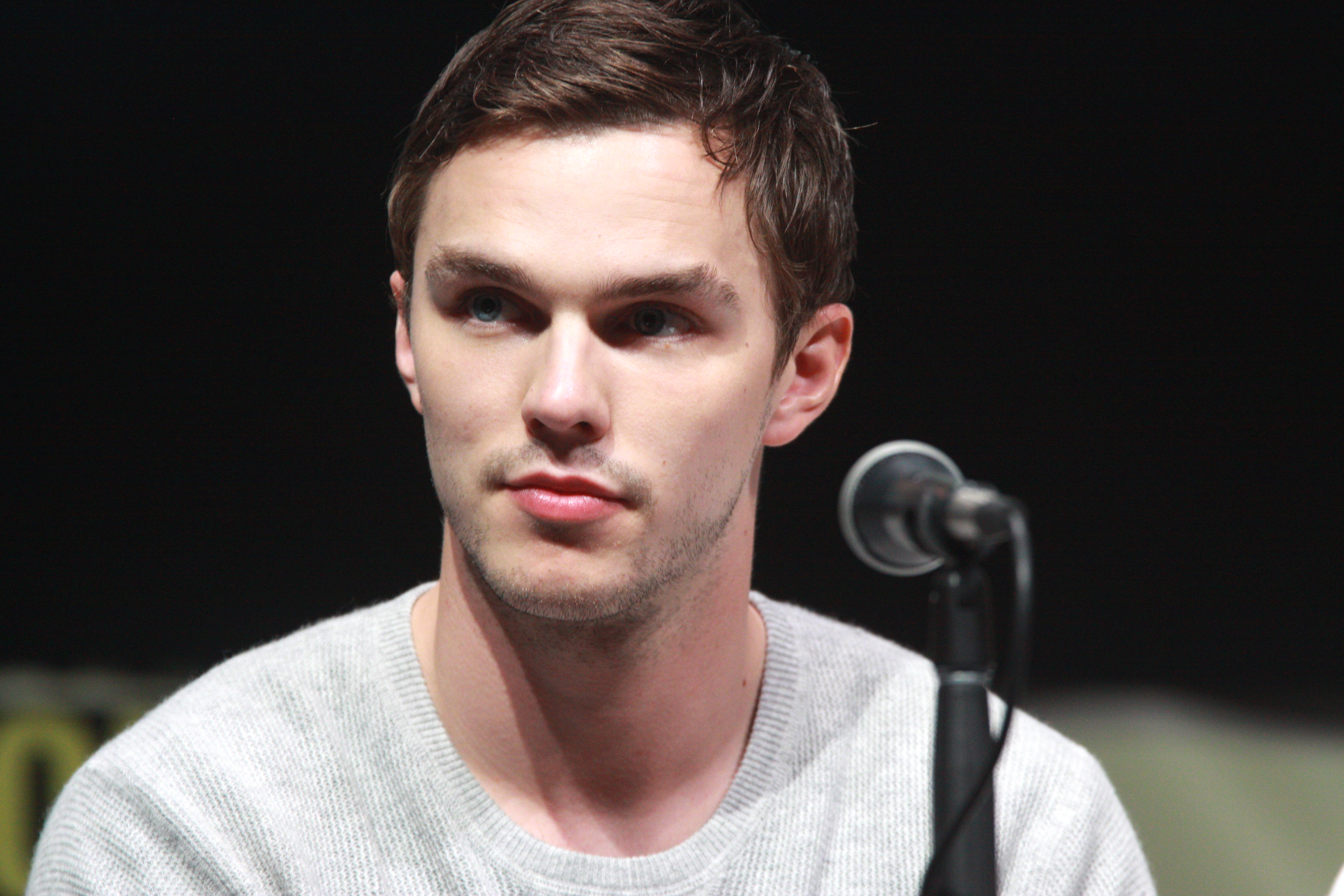 Nicholas Hoult speaking at the 2013 San Diego Comic Con International, for "X-Men: Days of Future Past", at the San Diego Convention Center in San Diego, California.